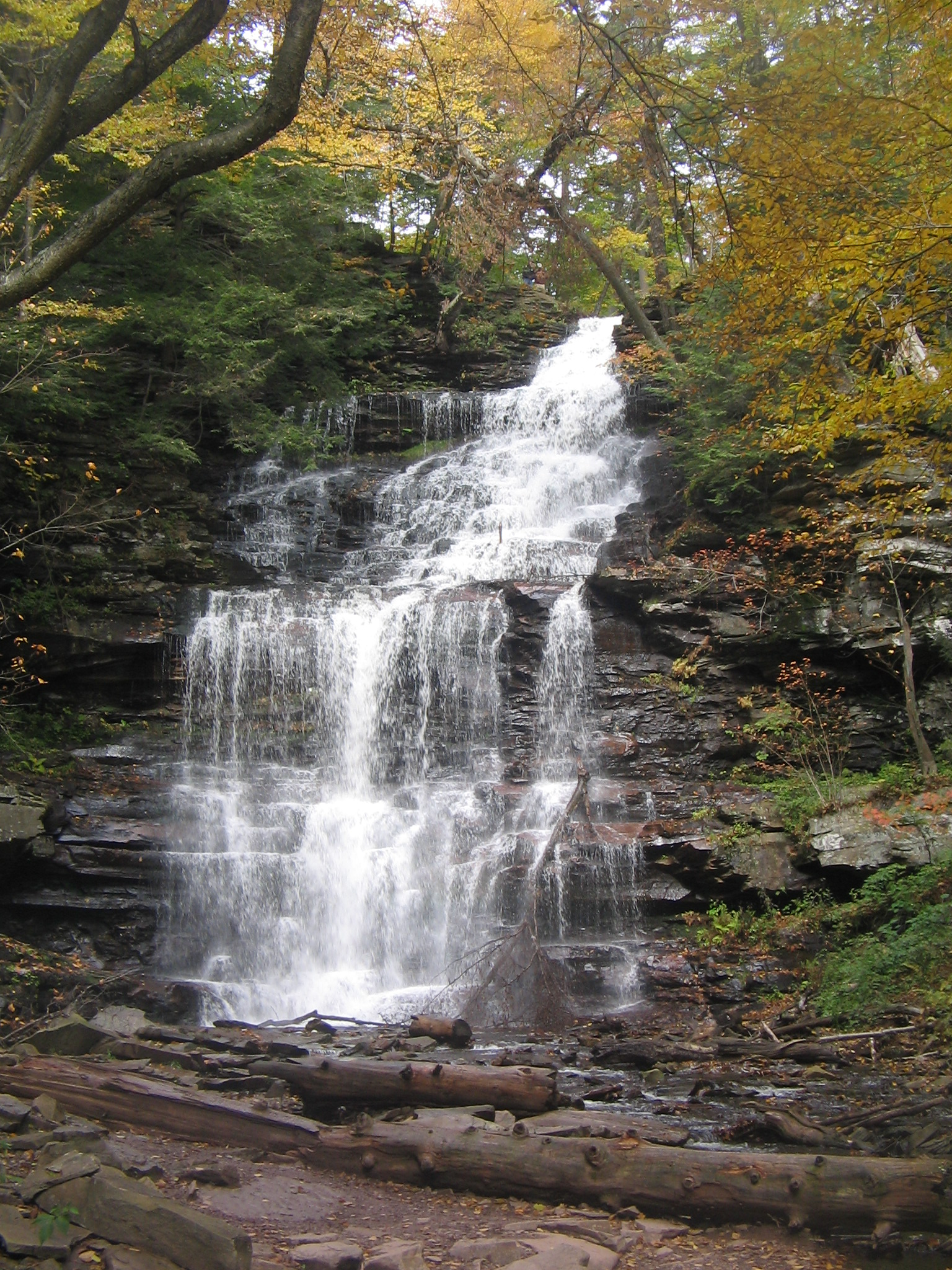 Ganoga Falls (94 feet (28.7 m) tall) on Kitchen Creek in Ricketts Glen State Park, Fairmount Township, Luzerne County, Pennsylvania, USA. It is the seventh of ten named waterfalls in Ganoga Glen on Kitchen Creek, going upstream from Waters Meet, and one of twenty two named waterfalls in the park, according to the Pennsylvania Department of Conservation and Natural Resources. It is the tallest waterfall in the park.